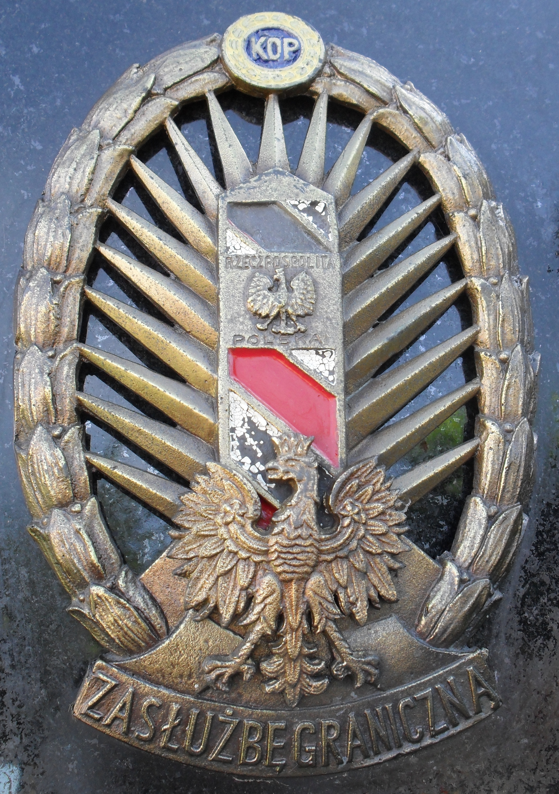 Sign of KOP Regiment in Poland, from the KOP monument in Hel.